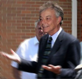 Capt. John gives a presentation on "Keeping the Dream Alive" as he Lobbies to keep America's Great Loop open in the face of a hard lock closure of the Electronic Fish Barrier on the Illinois river, due to the Asian Carp fish invasion.